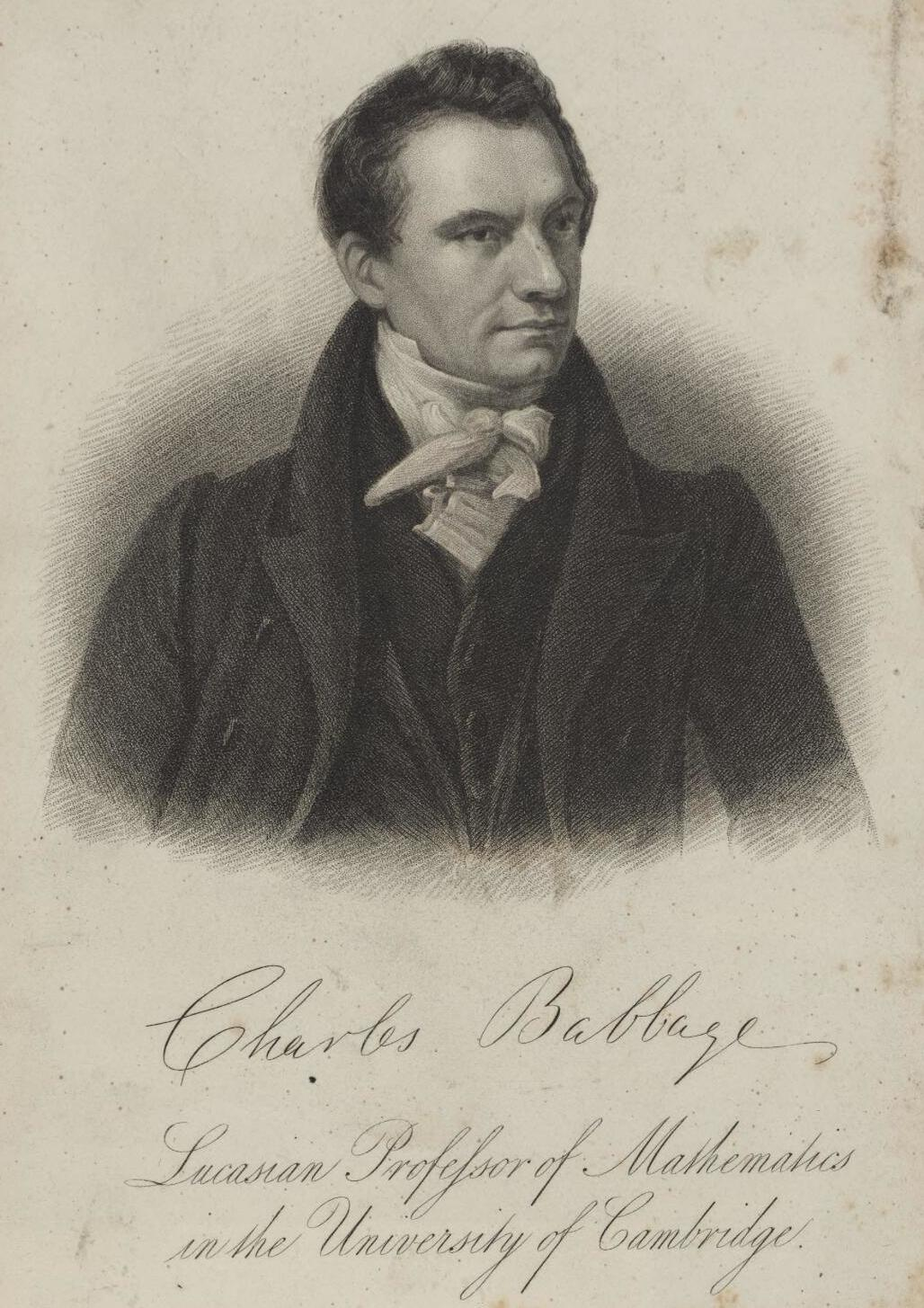 A portrait from the Welsh Portrait Collection at the National Library of Wales. Depicted person: Charles Babbage – English mathematician, philosopher, inventor and mechanical engineer who originated the concept of a programmable computer